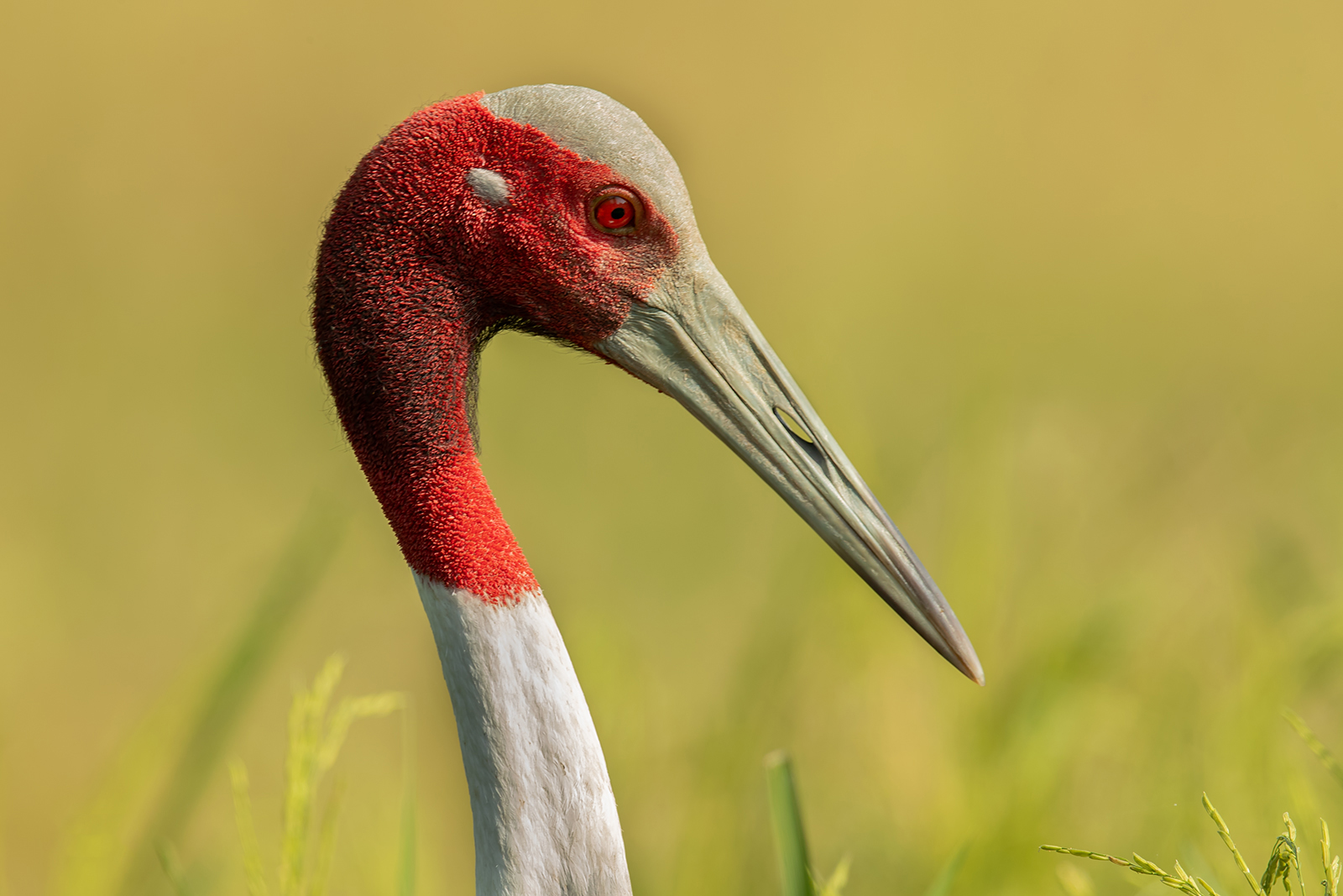 A closeup shot showing the details of head